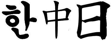 "Han Zhōng Ni" (first characters of the native names of Korean, Chinese and Japanese, hence CJK.)